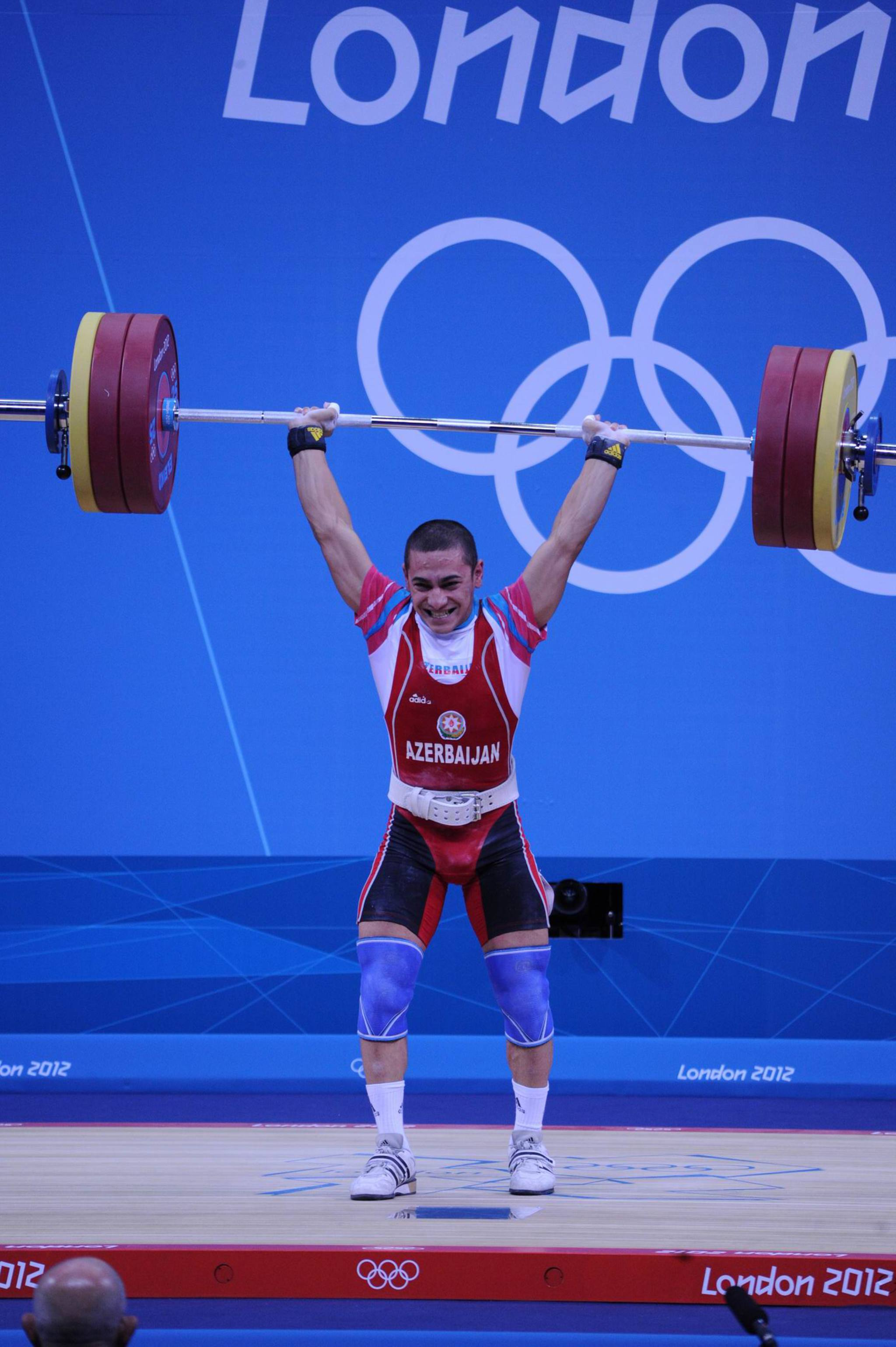 Azerbaijani athlete Valentin Hristov won bronze in the weightlifting competition of the 2012 London Olympic Games